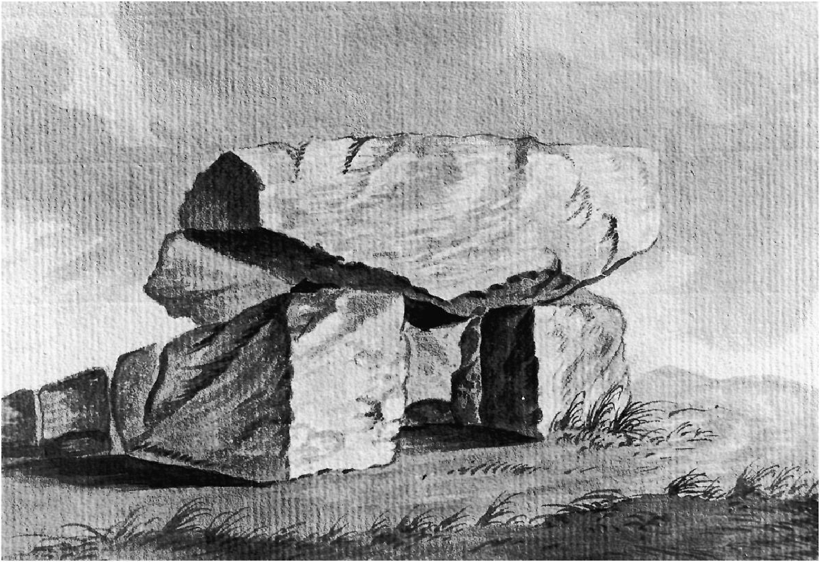 1799 drawing of the court tomb in the townland Kilclooney, County Donegal. This is a copy of a work by William Burton Conyngham (1733–1796). This drawing provides a view of the court tomb before the lintel was dislodged in the 19th century.